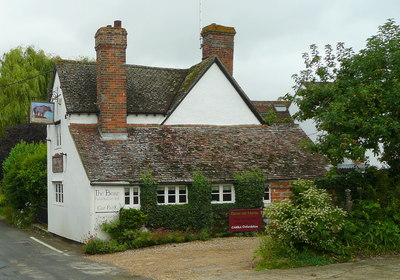 The Bear at Home public house, High Street, North Moreton, Oxfordshire (formerly Berkshire)